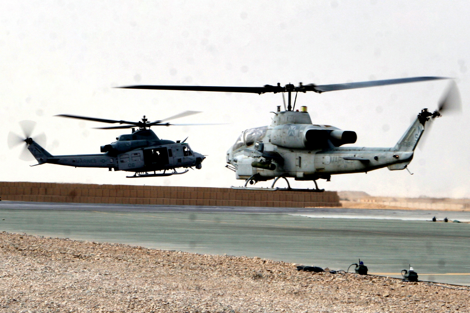 A U.S. Marine Corps Bell UH-1Y Huey helicopter from Marine Light Attack Helicopter Squadron 367 and a Bell AH-1W Supercobra from HMLA-169 take off on one of the first flights for the new Huey from Bastion Airfield, Helmand Province, Islamic Republic of Afghanistan. The first UH-1Y Huey arrived on 23 October 2009 and made its first combat flight on 4 November.